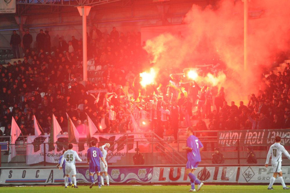 "Fırtına" fan club storming champions FC Baku. Match ended with 3-0 victory of Khazar Lankaran FC. The great support of "FIRTINA" helps team every time.